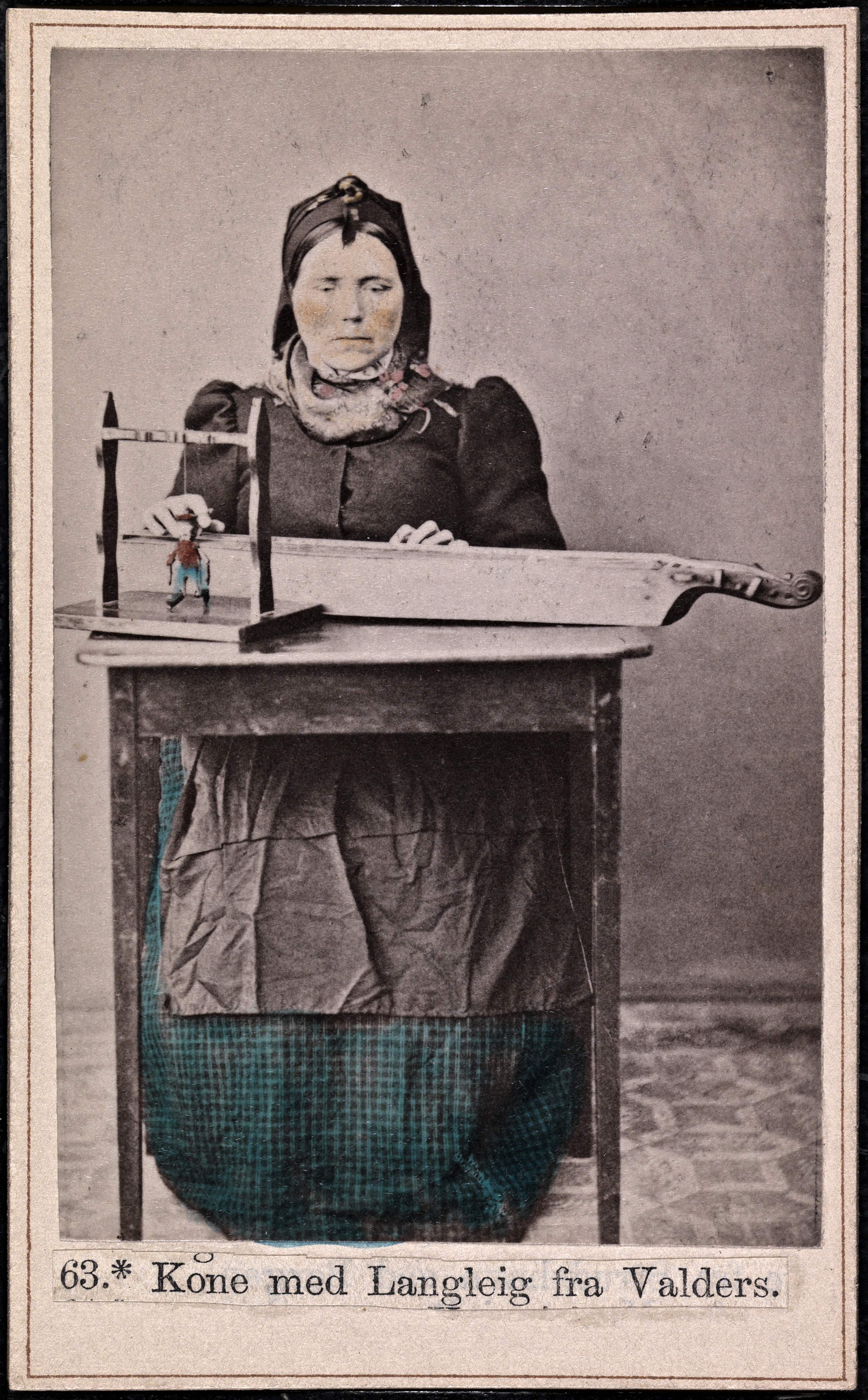 Beskrivelse / Description: Drakt fra Valdres (Oppland). Visittkort / Carte de visite. Dato / Date: ca. 1860-1870 Fotograf / Photographer: Marcus Selmer (1819-1900) Digital kopi av original / Digital copy of original: s/h papirkopi, kolorert, visittkort Eier / Owner Institution: Nasjonalbiblioteket / National Library of Norway Lenke / Link: Bildesignatur / Image Number: bldsa_FA0508